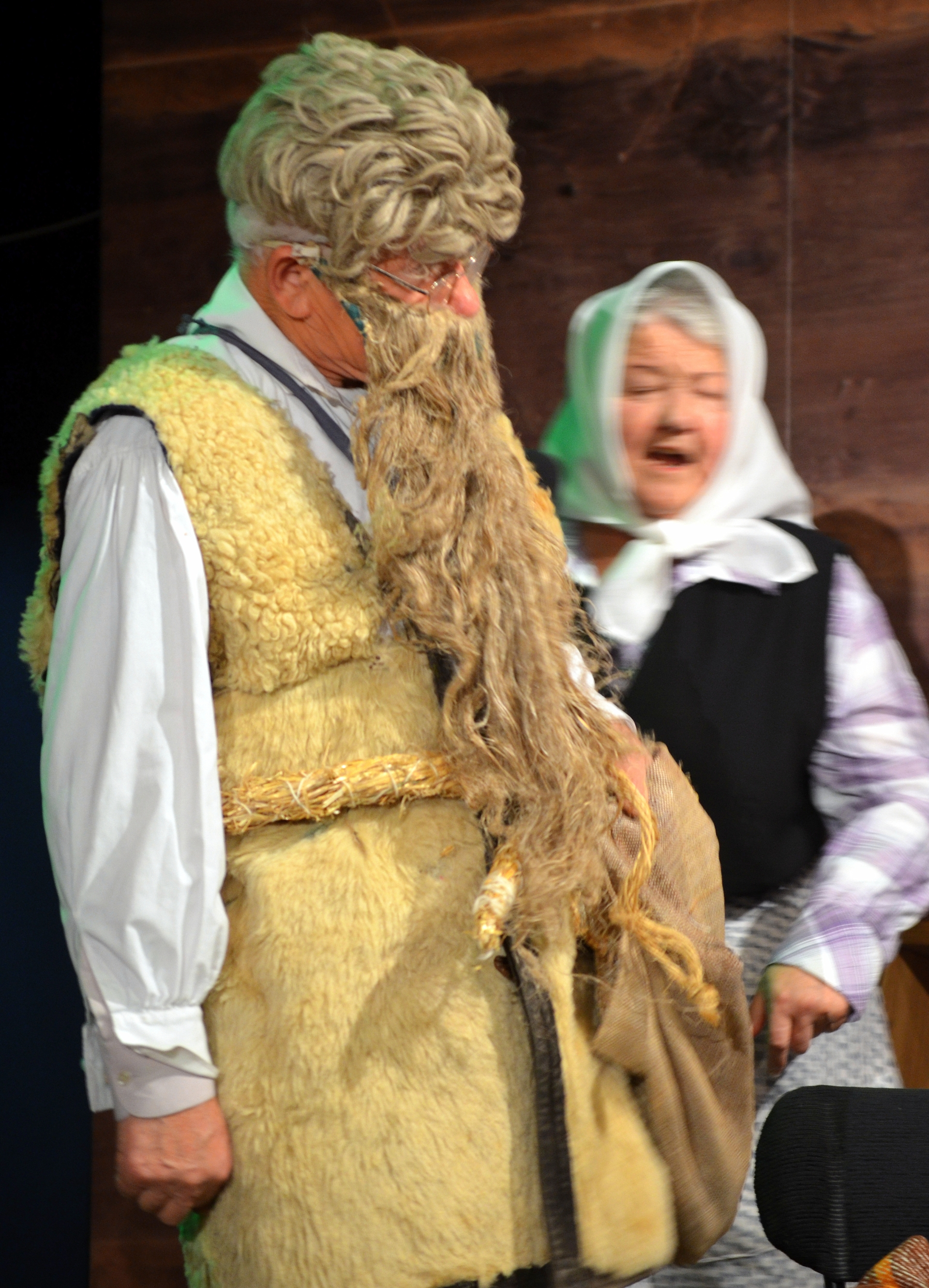 Saint Lucy's Day in Sanok